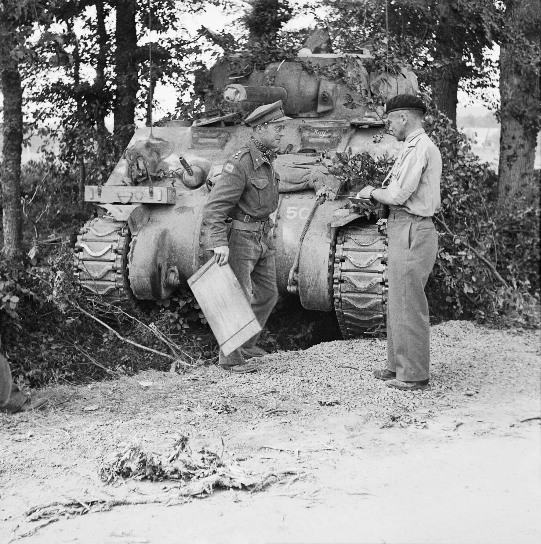 Major General George 'Pip' Roberts (right), commanding 11th Armoured Division, with Brigadier Roscoe Harvey of 29th Armoured Brigade, and a Sherman command tank, Normandy, 15 August 1944. 11th Armoured Division: Major General 'Pip' Roberts, DSO, MC, with Brigadier Harvey, DSO and Bar, at the latter's Sherman command tank, in the forward area.